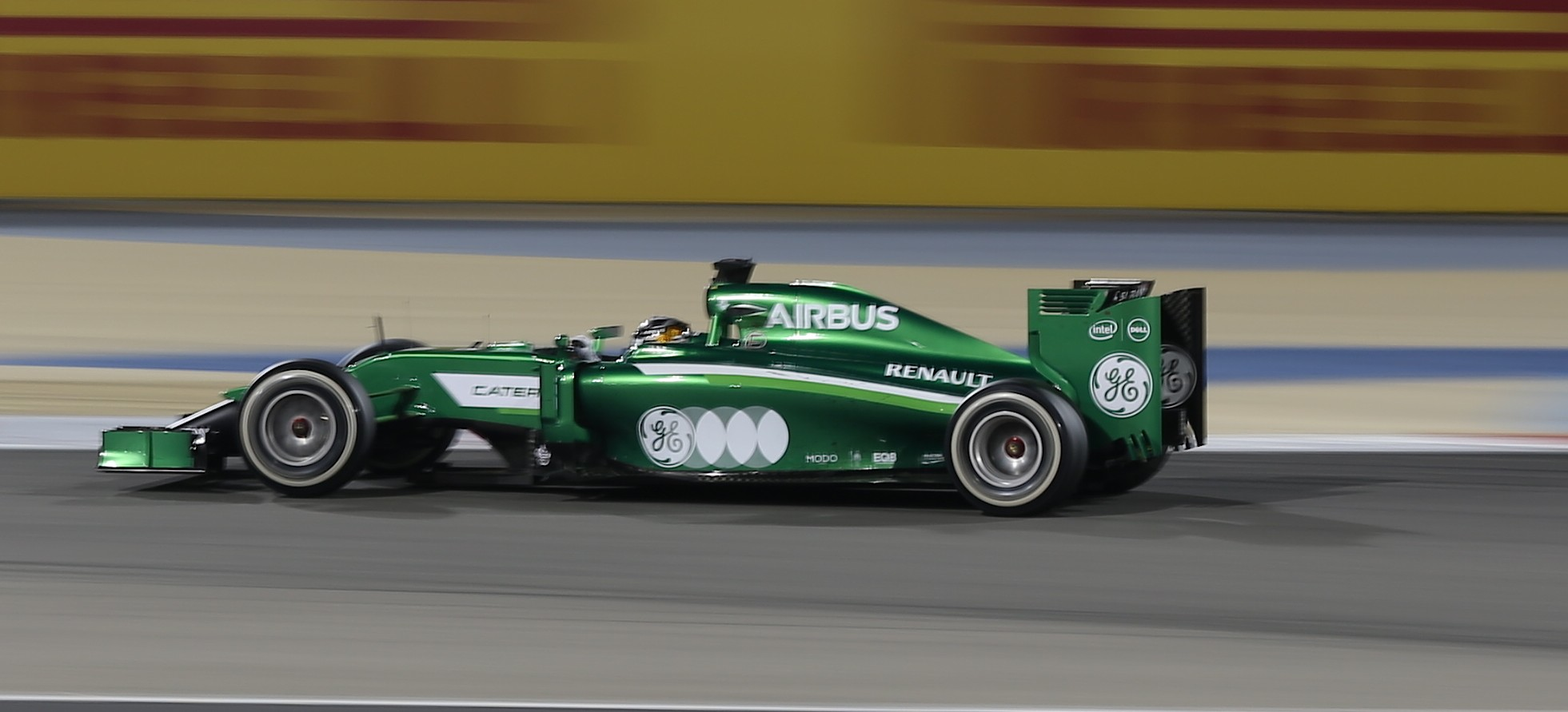 Kamui Kobayashi on Caterham CT05 at the 2014 Bahrain Grand Prix